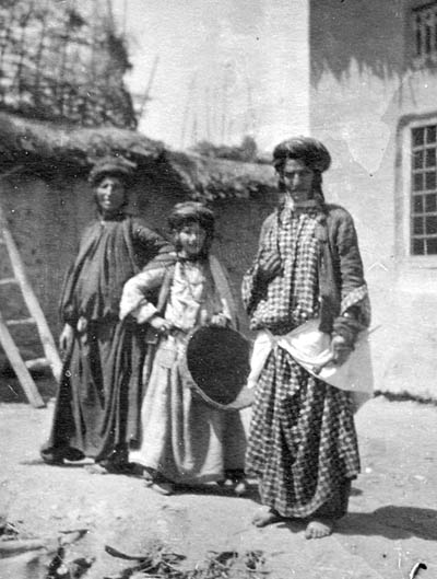 Photograph of three Kurdish jewish family members from the the small town of Rowndiz in the Kurdish mountains in northern Iraq, taken by a traveling missionary in 1905. The town was described by A.M.Hamilton [The narrative of an Engineer in Iraq,1930's] "High on the steep and narrow slope and perched thus between two great precipices is the town of upper Rowndiz, [lower Rowndiz was burned by the Russians in 1915-16]. Rowndiz looks out on mountains on all sides. Jagged and irregular peaks, nearly all of them over eight thousand feet in height, snow-capped for six months of the year". Some of the Kurdish Jews settled in the new and prosperous town of Qamishli in Syrian Mesopotamia post WW1, facing the ancient town of Nusibis [Nusaibin] on the Turkish side of the border. Qamishli possessed a train station on the Berlin-Baghdad Railway, an aerodrome, and a Synagogue. Today, some 75.000 to 100.000 so called Kurdish Jews live in Israel.